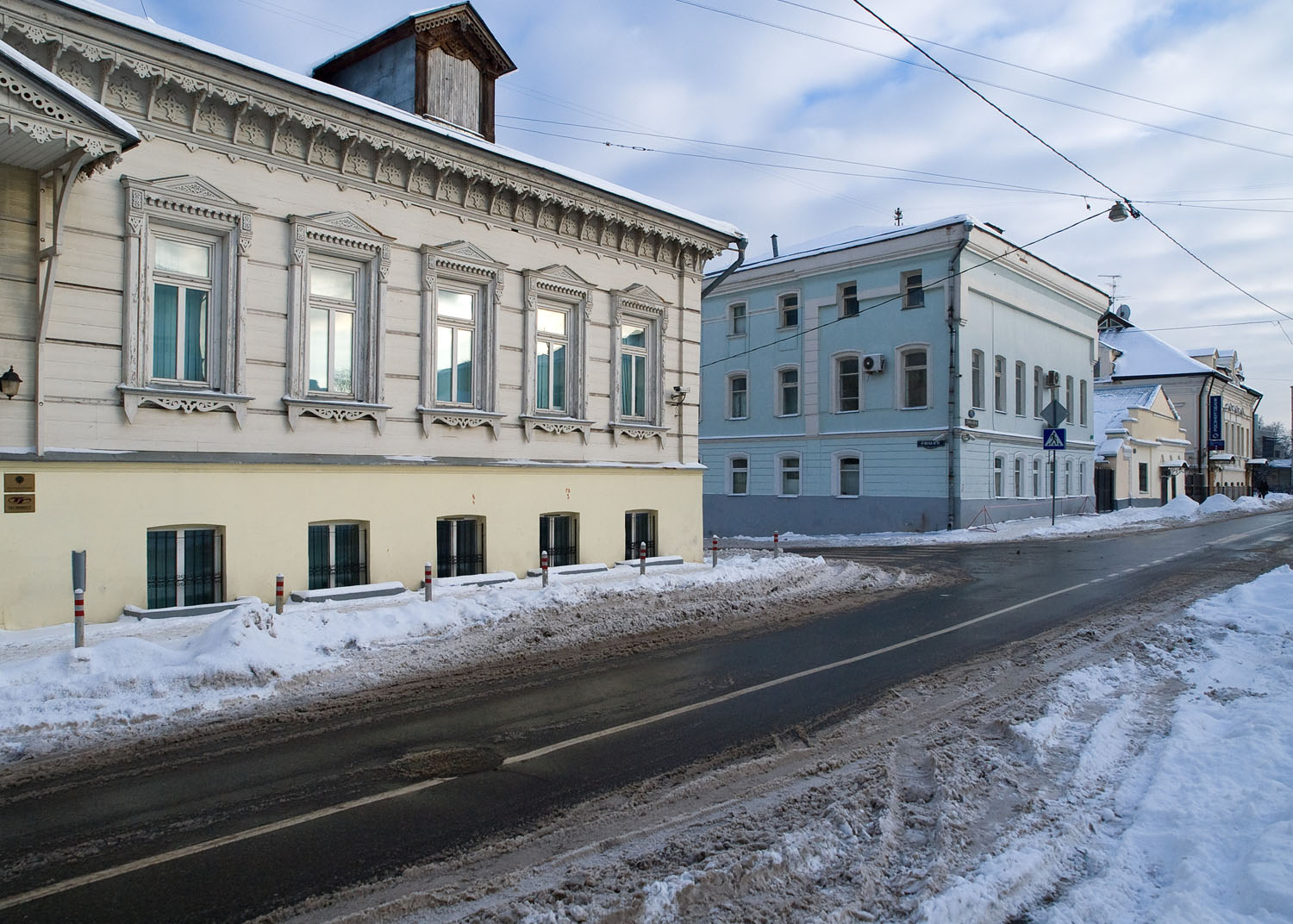 Goncharnaya Street, Moscow